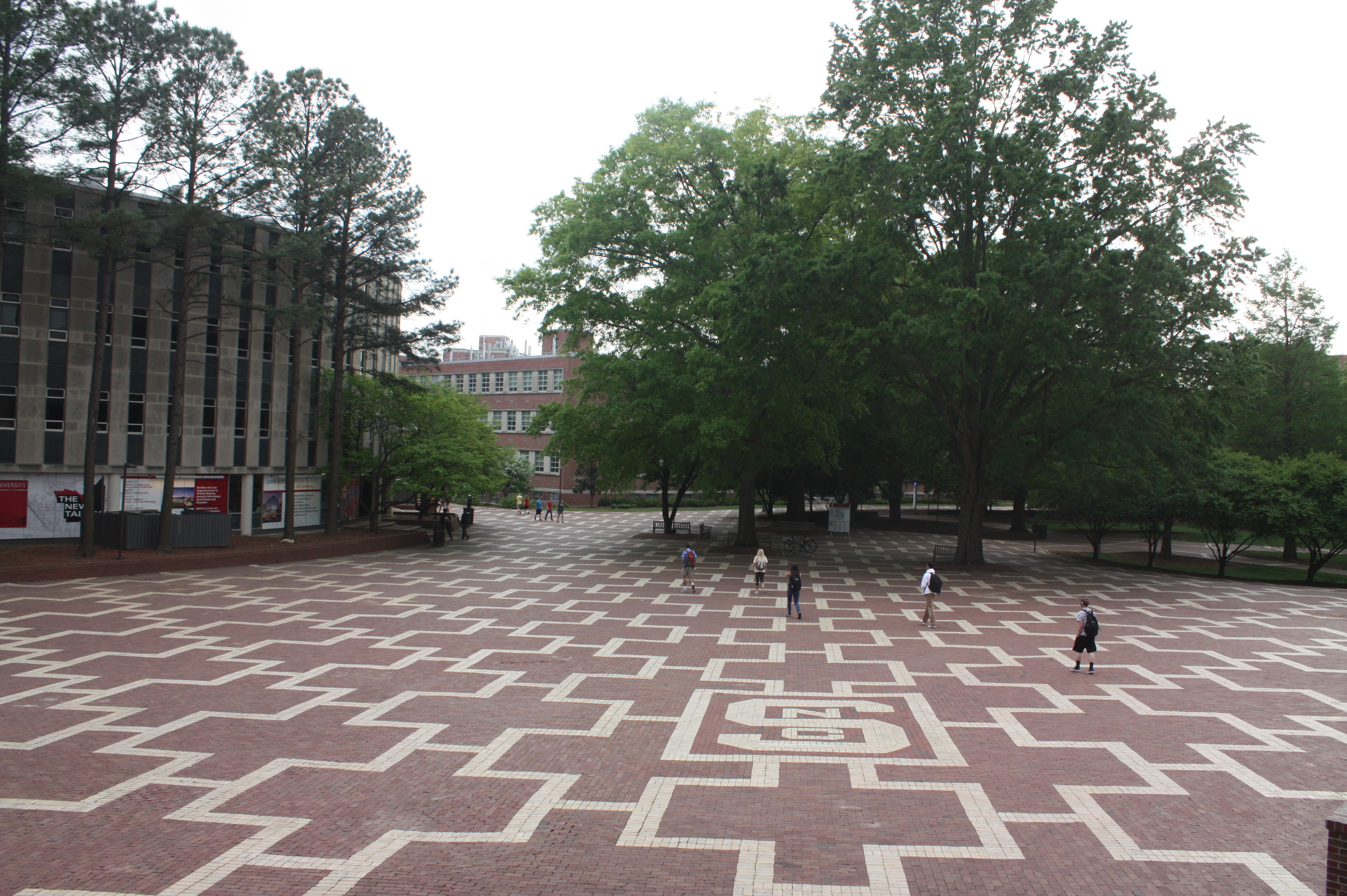 The Brickyard is located on the North Carolina State University campus. It is in the center of campus where students gather to have events and enjoy the campus.